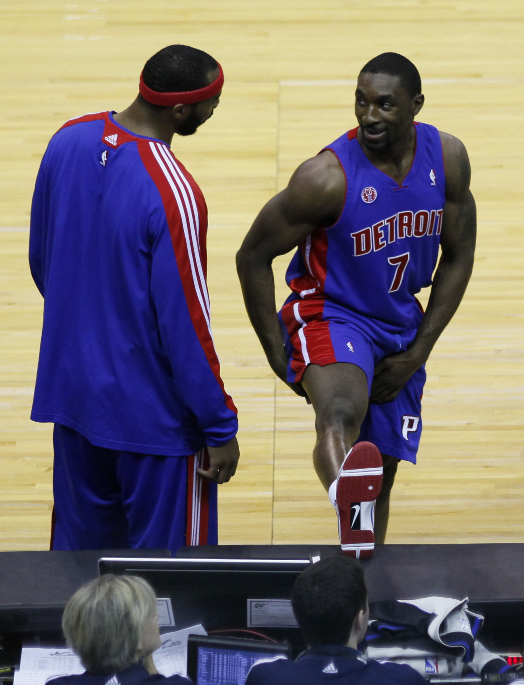 1=Ben Gordon playing with the Detroit Pistons